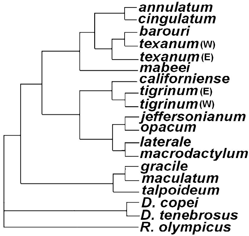 Adopted from Jones et al. (1993, Systematic Biology, 42(1): 92–102) tree showing relationships for Ambystomatidae. This was modified from the original version in my thesis.